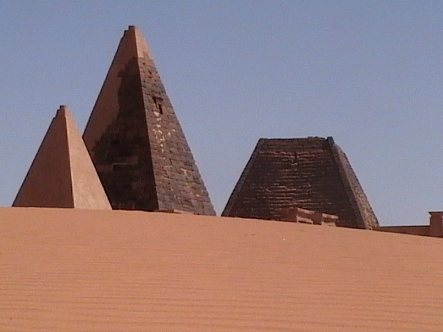 Nubian Pyramids at Meroe taken June 2007 by Joel Shuflin